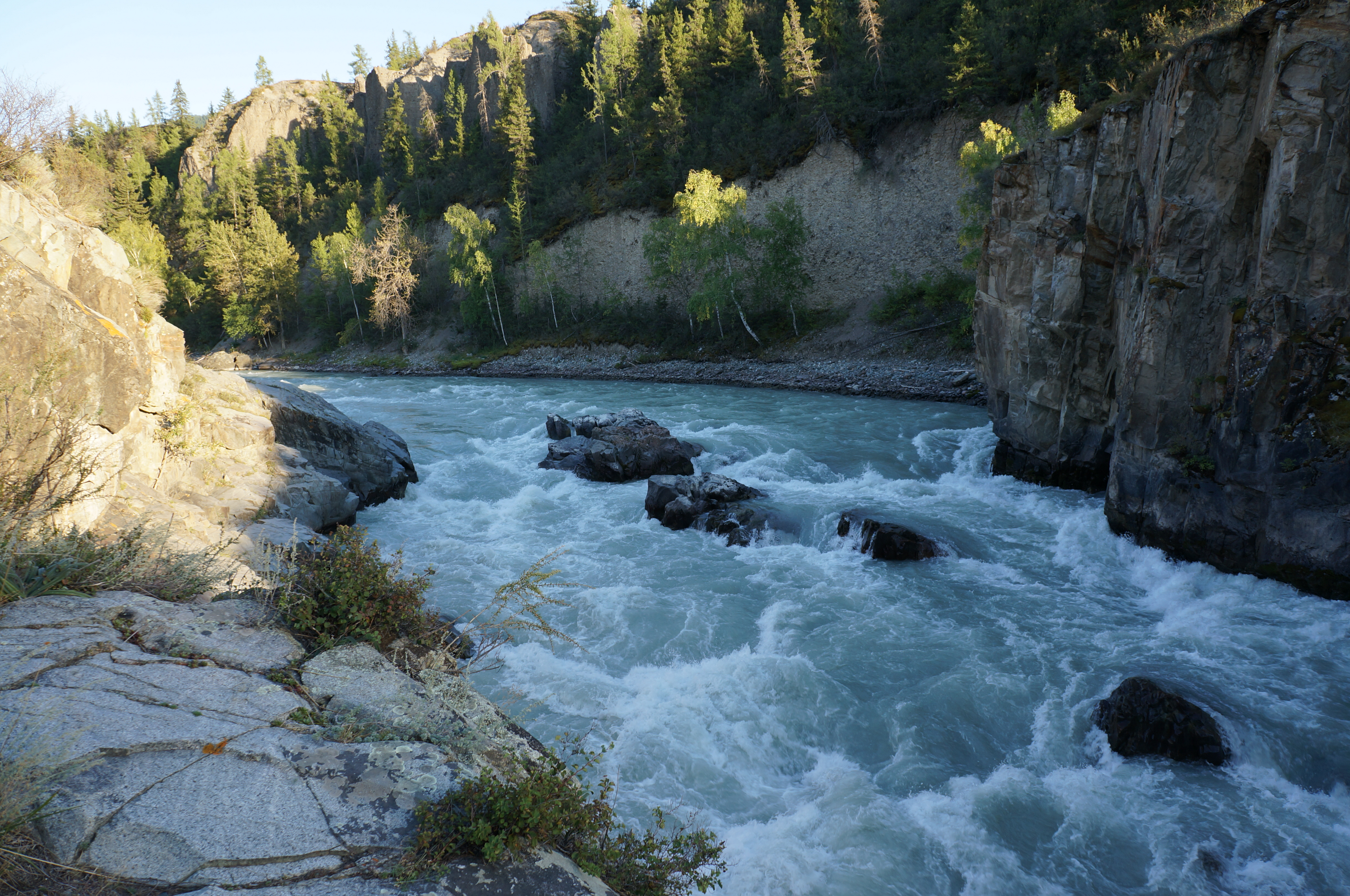 Start of Horizon Rapid on Chuya River, 5th category (Altai Republic, Russia, August 2014)